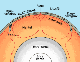 Information from english Wikipedia: Still from NASA movie that shows how ocean ridges are formed, lithosphere subducted at trenches; good for understanding plate tectonics. Scientifically not up to date. Found on USGS page [1], original movie at NASA [2]. PD-USGov-NASA